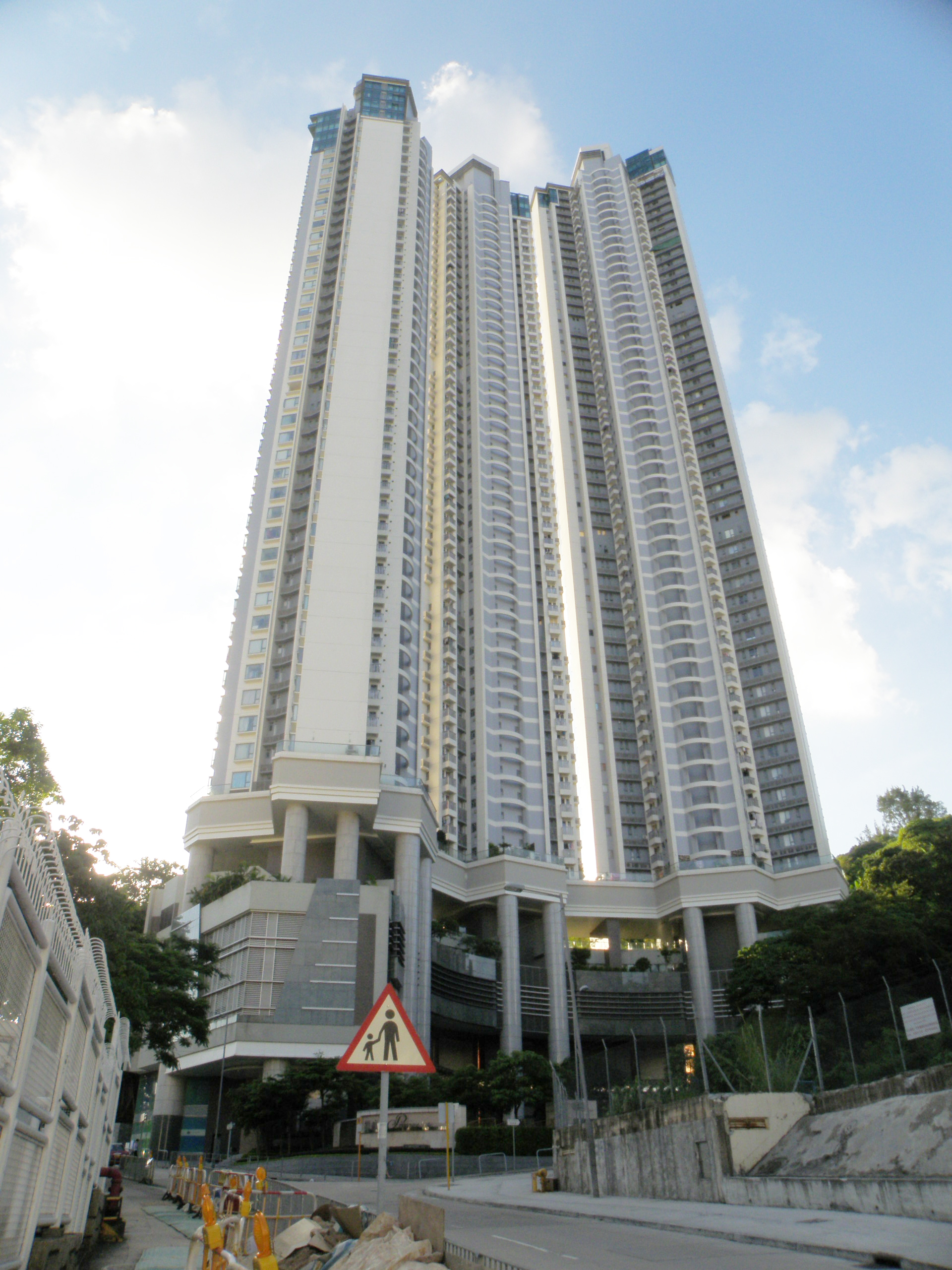 Primrose Hill in Tai Wo Hau, Hong Kong